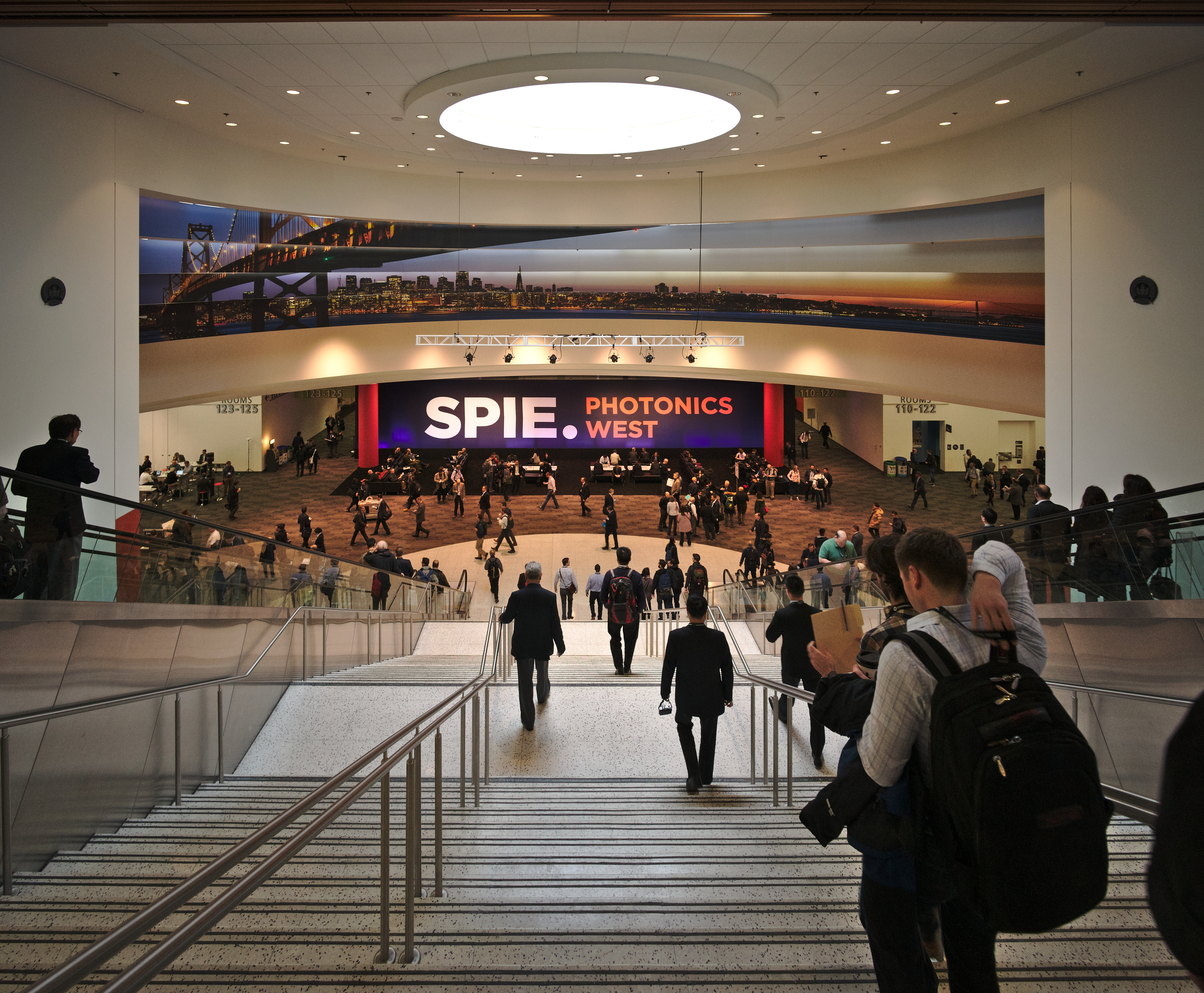 The SPIE Photonics West conference in San Francisco at Moscone Center in 2017.